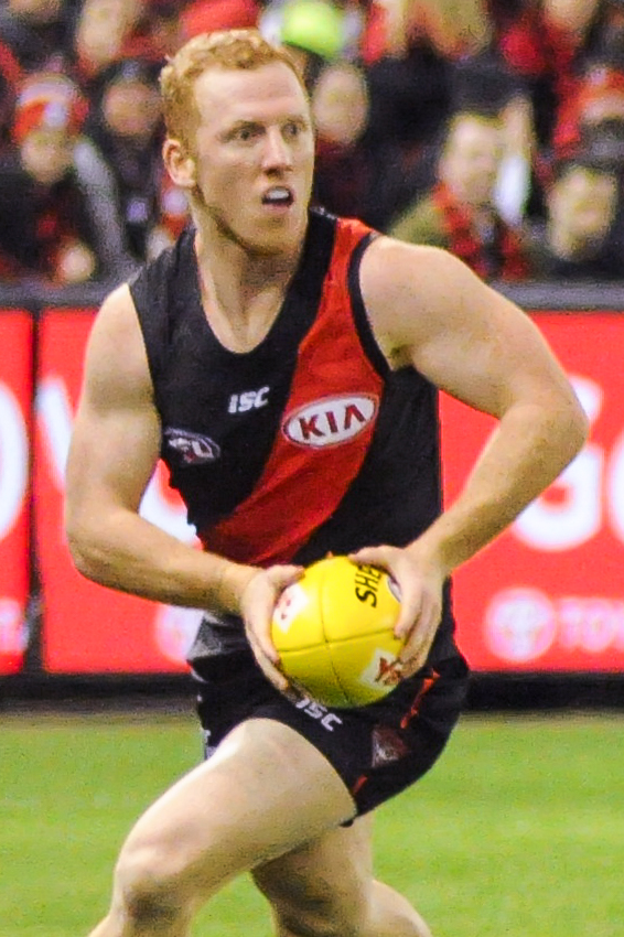 Josh Green during the AFL round twelve match between Essendon and Port Adelaide on 10 June 2017 at Etihad Stadium in Melbourne, Victoria.